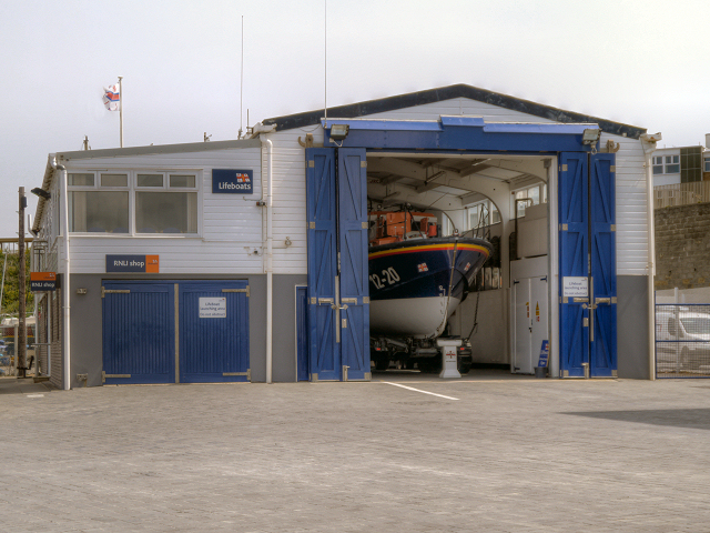 Margate Lifeboat Station, Margate, Kent, United Kingdom